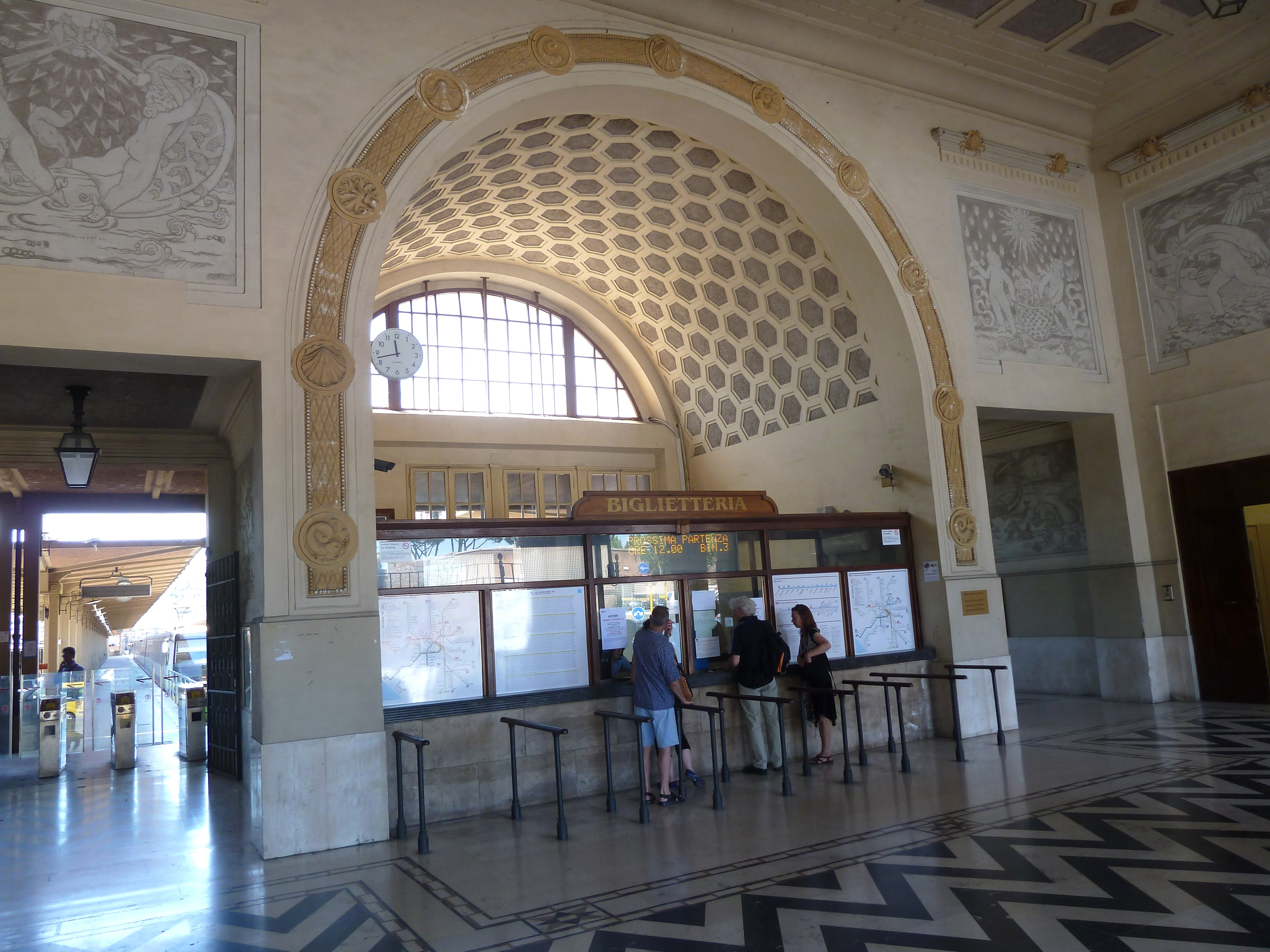 Porta San Paolo Train Station in Rome